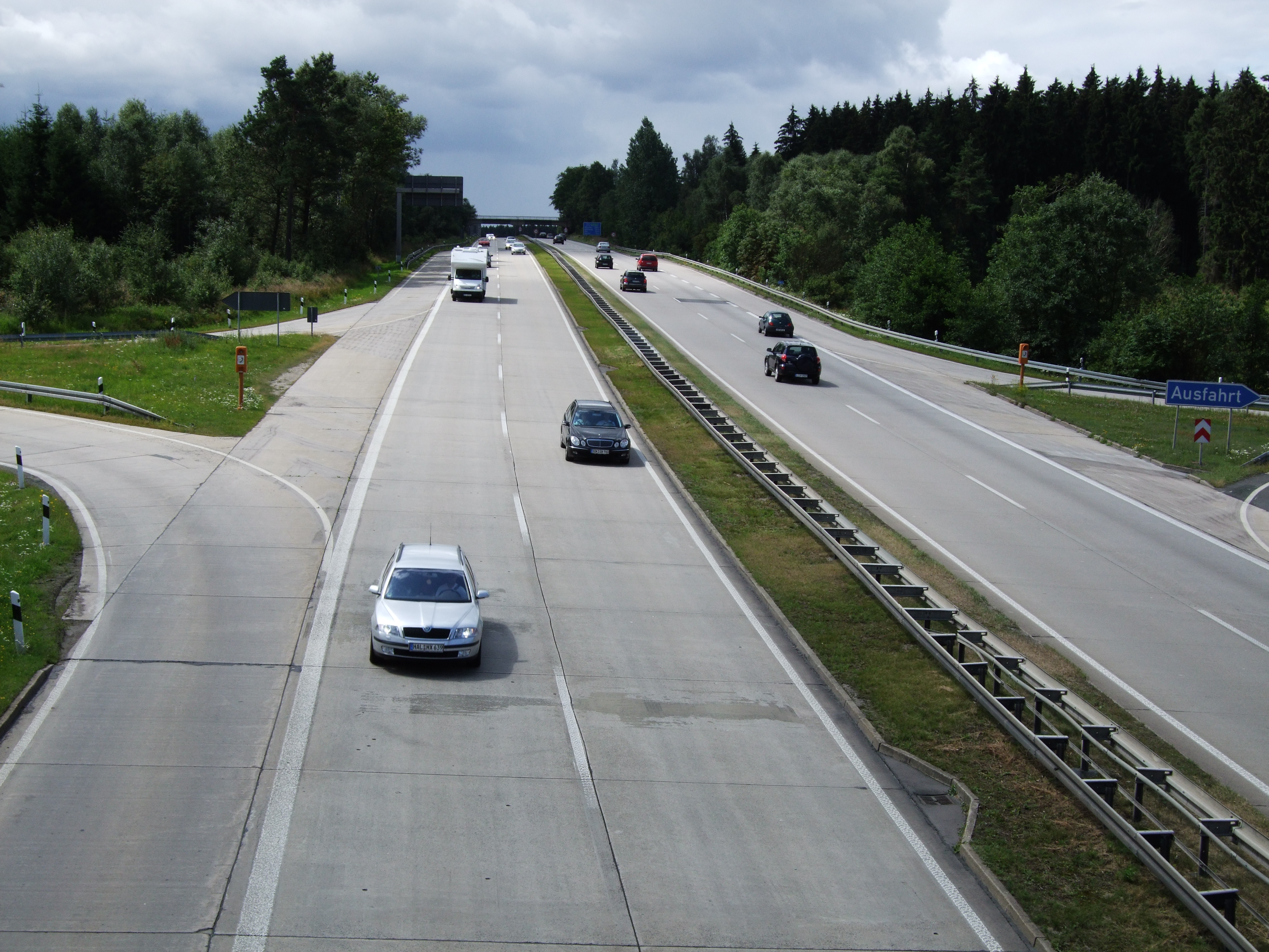 The A9 through southern Thuringia